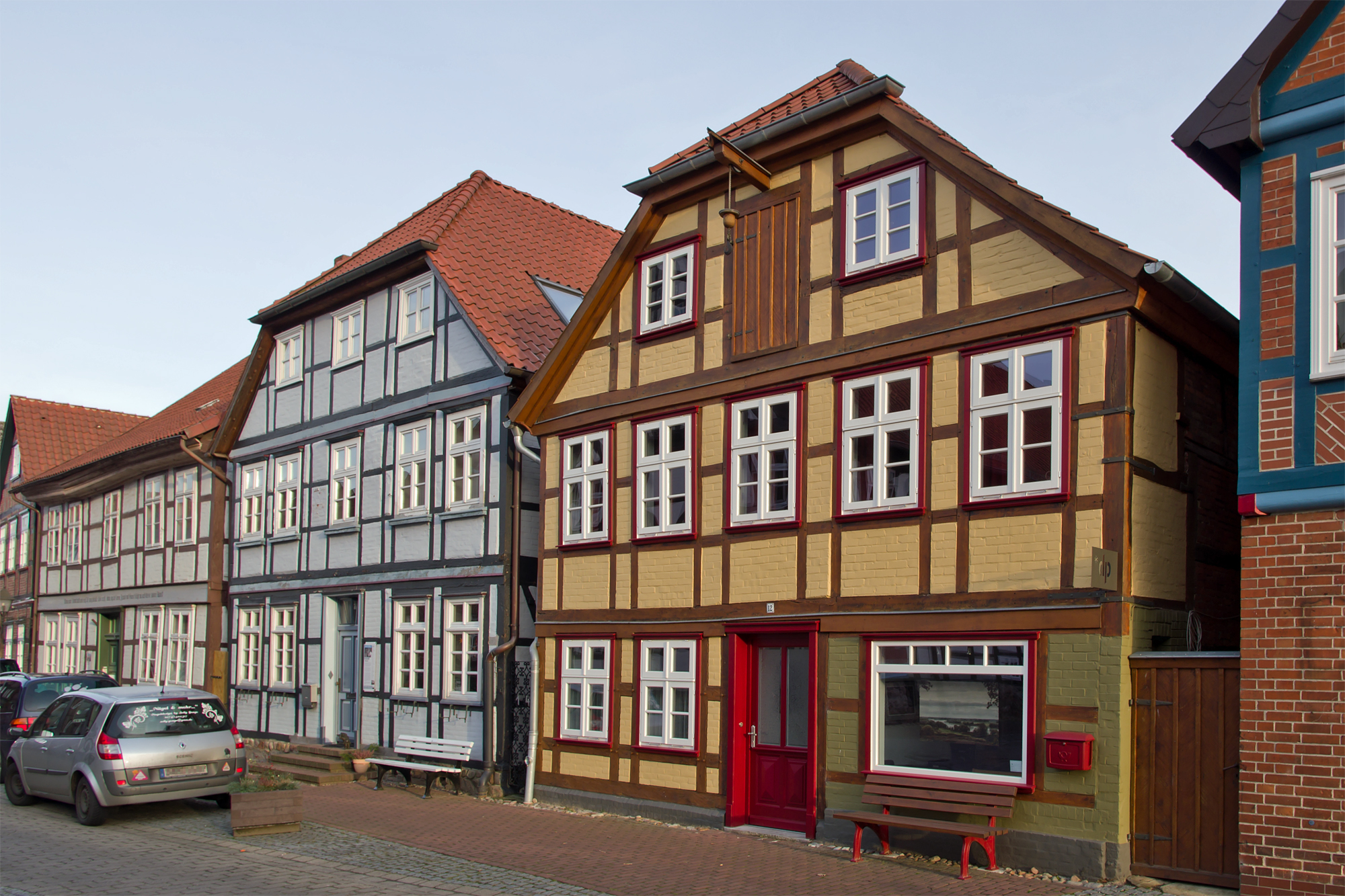 Cultural heritage monuments "Hauptstrasse 12/14/16" (from right to left) in Hitzacker (district Lüchow-Dannenberg, northern Germany).